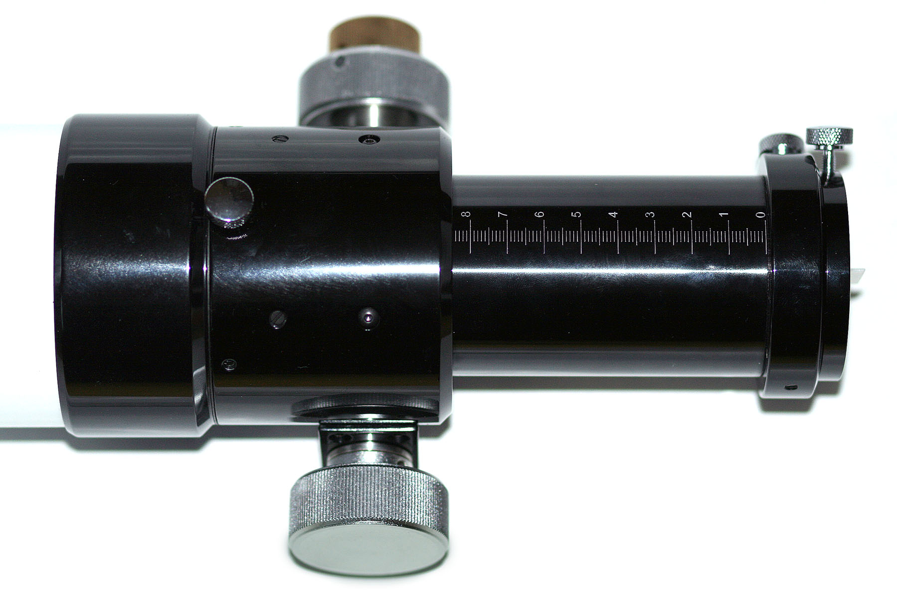 A small refractor telescope with the fokusser drawn out (detail from the fokusser)